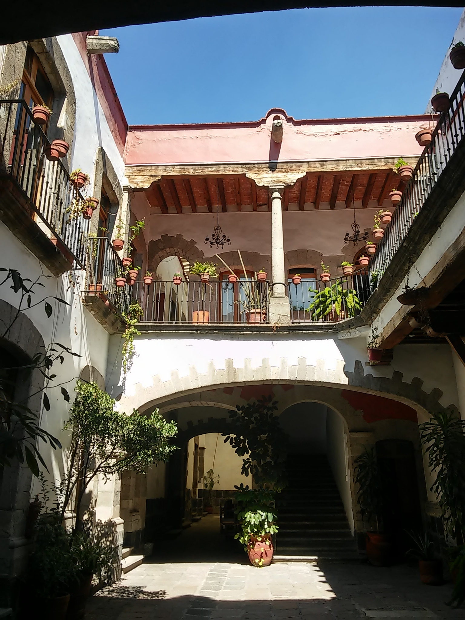 Patio de la casa Tlaxcala, en la calle San Ildefonso 40 del centro histórico de la ciudad de México